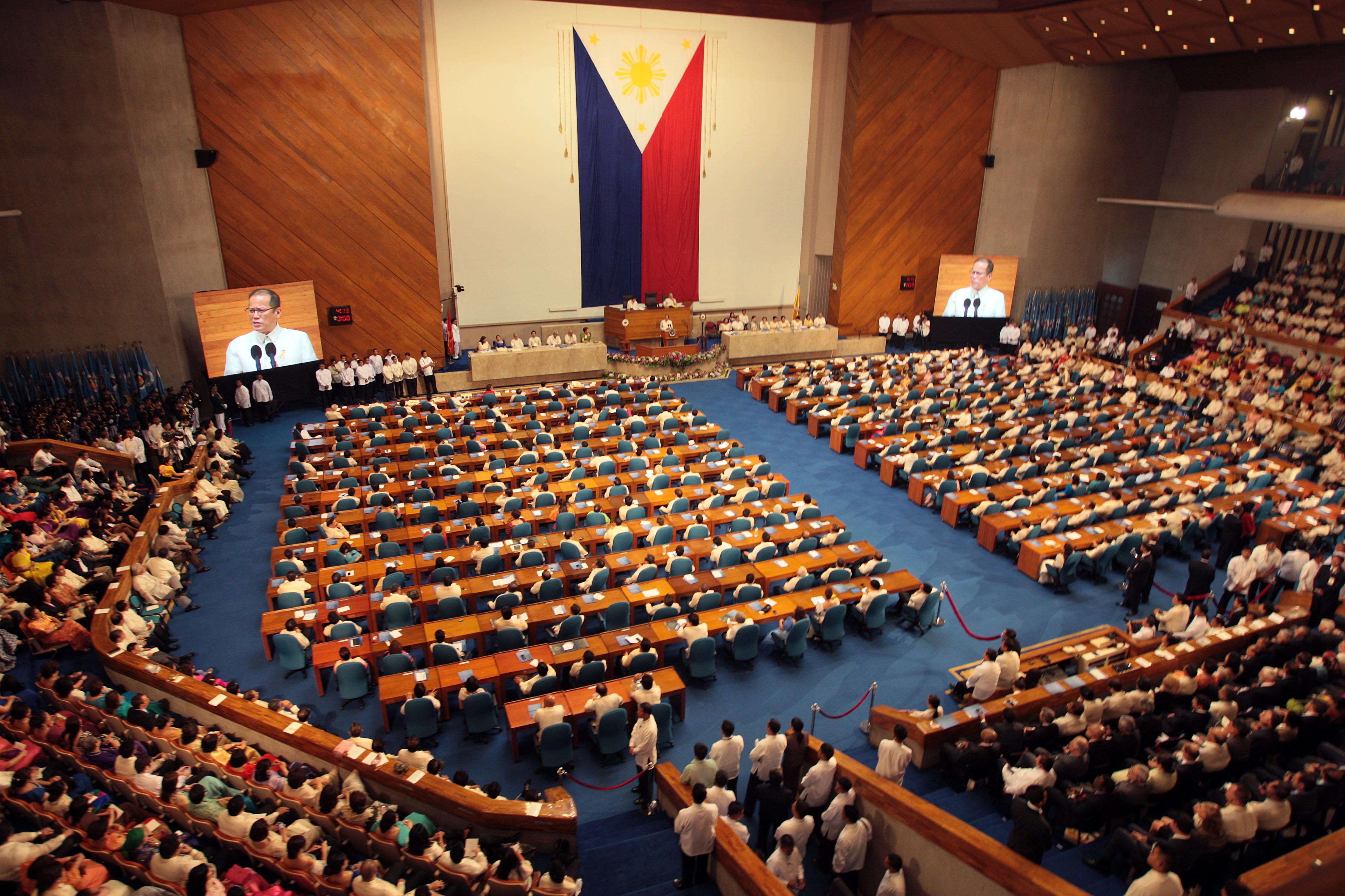 President Benigno Aquino III delivers the 2011 State of the Nation Address (SONA) to a joint session of the Congress of the Philippines.Tagalog: Ibinigay ni Pangulong Benigno Aquino III ang 2011 Talumpati sa Kalagayan ng Bansa (SONA) sa isang magkasamang sesyon ng Kongreso ng Pilipinas.